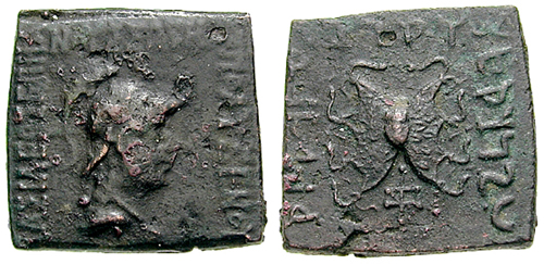 Coin of the Indo-Graeco king Polyxenos